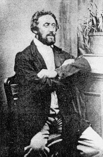 Portrait of Danish astronom Theodor Brorsen